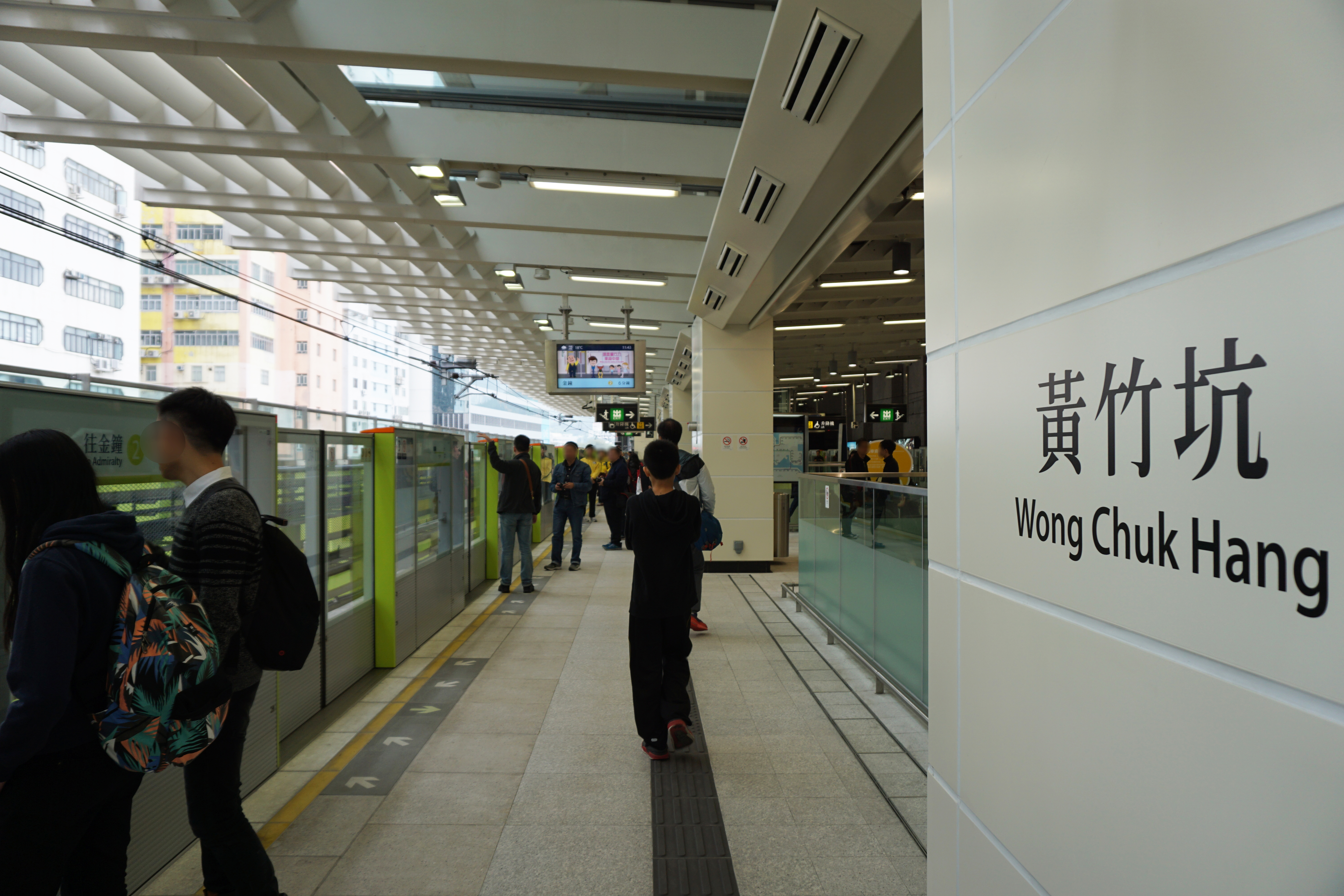 Wong Chuk Hang Station in Southern District, Hong Kong.